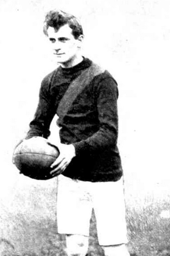 Photograph of Fred O'Shea from the 1910 Weekly Times Victorian Footballer Postcard Series